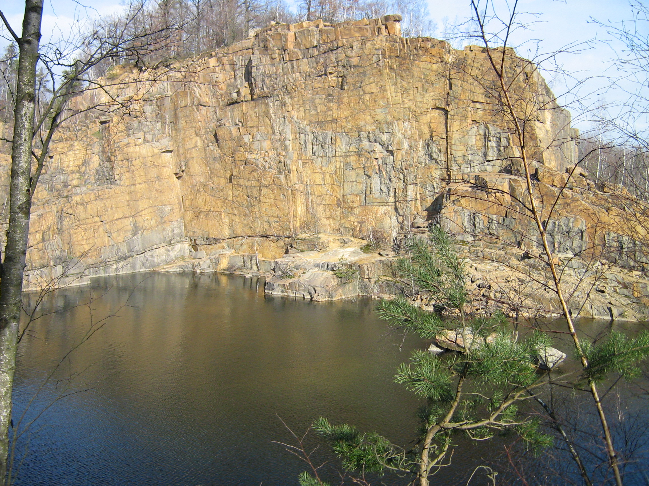 mountains Konigshainer Berge - The quarry Firstensteinbruch